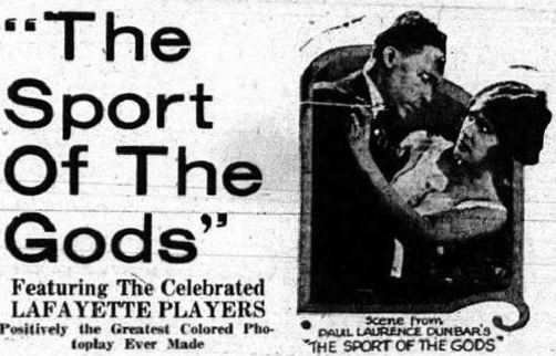 Newspaper ad for the American race film The Sport of the Gods (1921), on page 4 of the May 13, 1921 The St. Louis Argus.